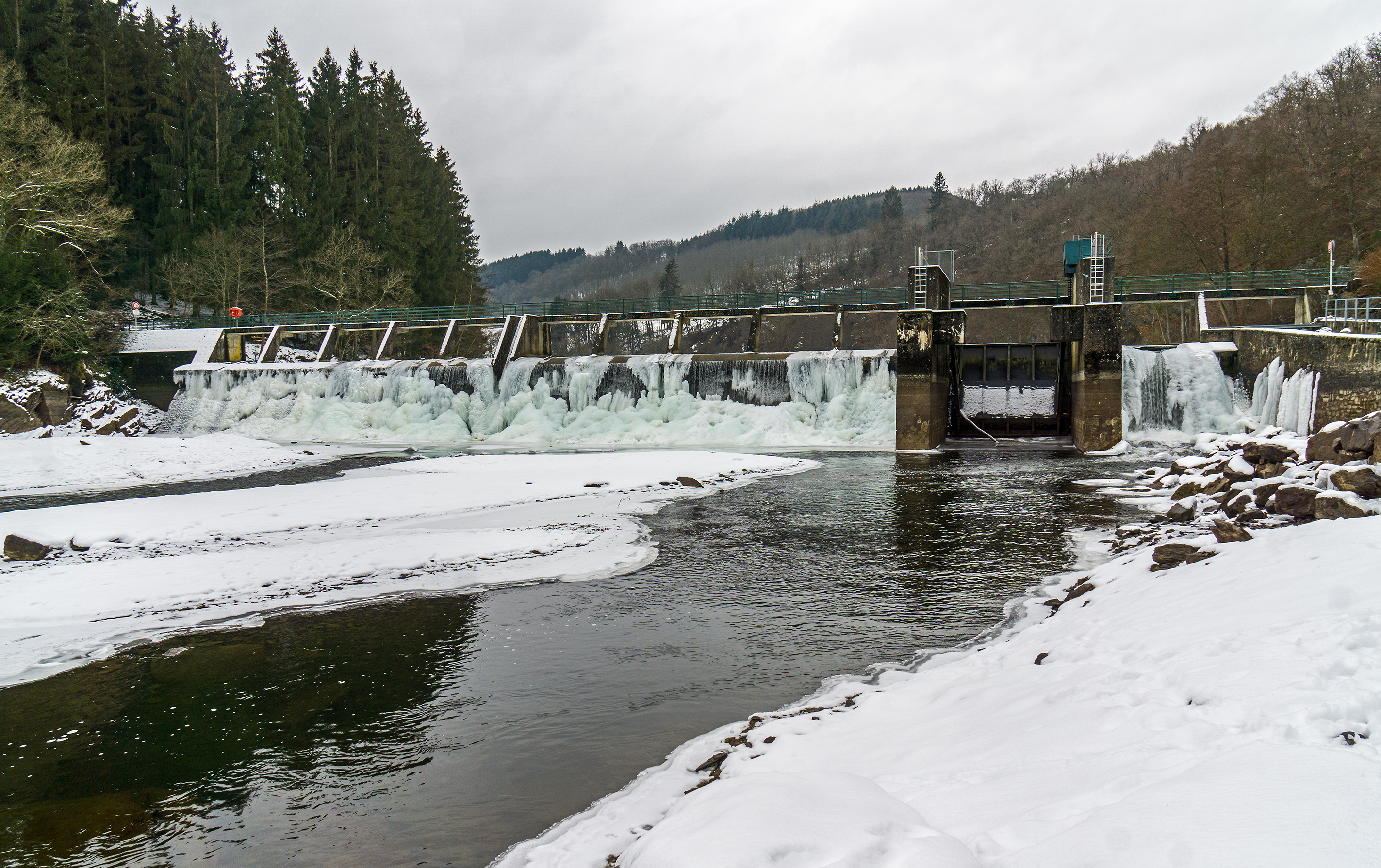 Pre-retaining damn at Pont Misère covered with ice